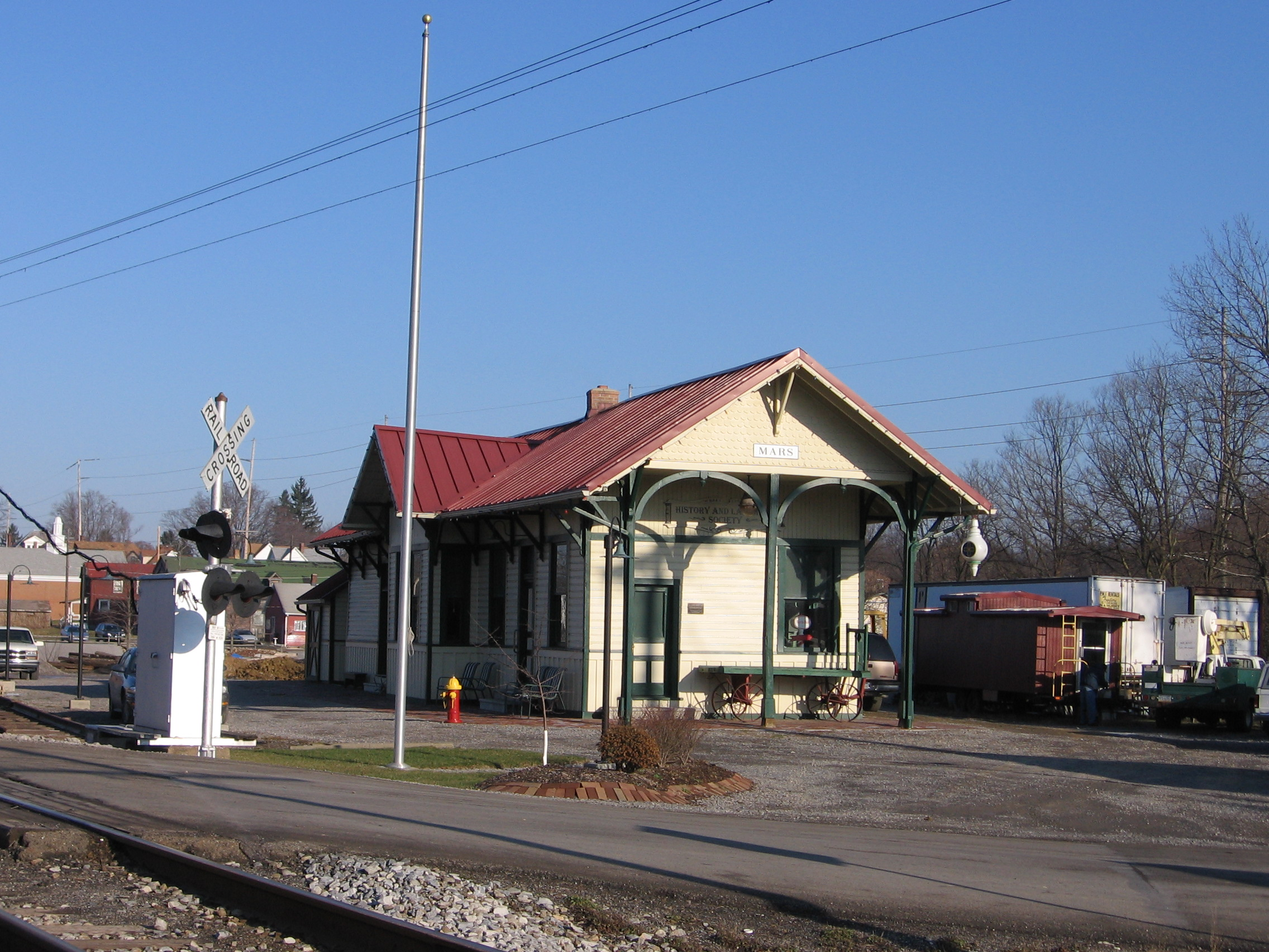 The Mars Station in Mars, Pennsylvania. Photo taken by Mvincec on 20 December 2007.